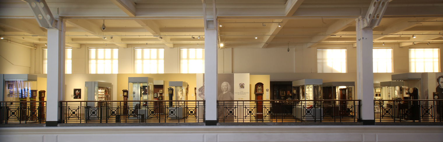 View of the Clockmakers Museum, London SW7, viewed from the Science Museum Science City gallery